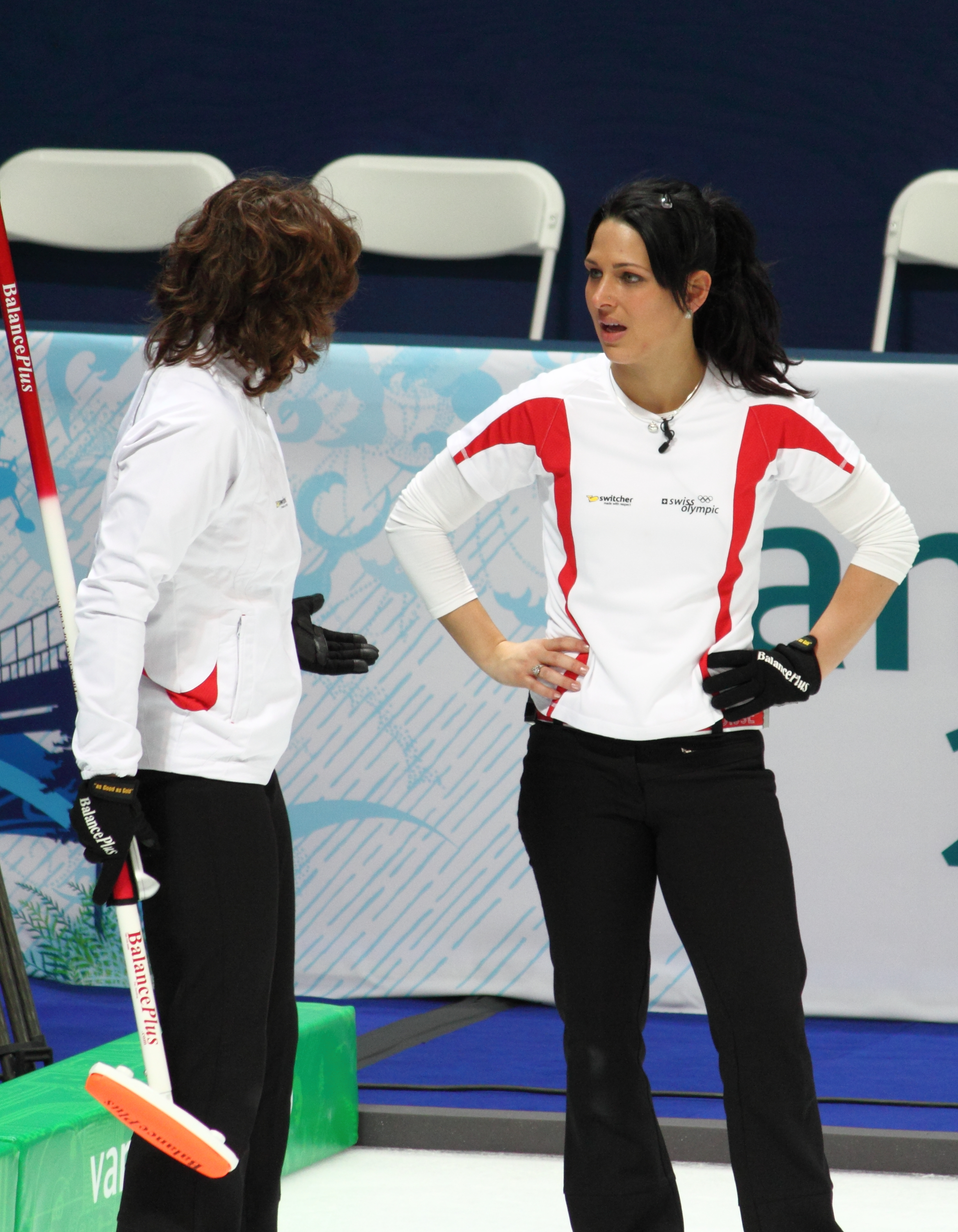 Mirjam Ott (left) and Carmen Schäfer; 2010 Vancouver Olympic Games - Women's Curling - Preliminary from Vancouver Olympic Centre